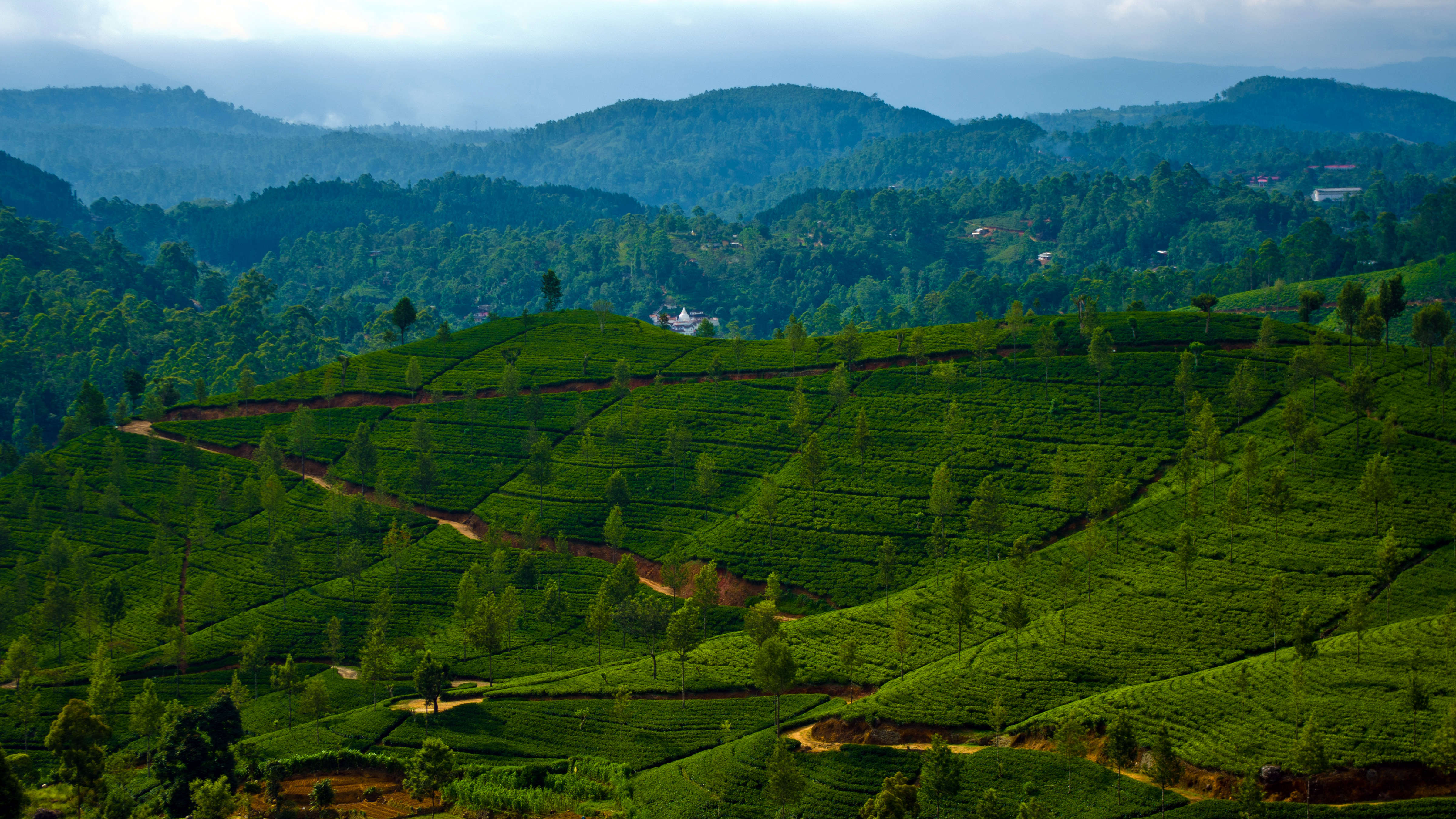 Tea plantations in Sri Lanka in 2013